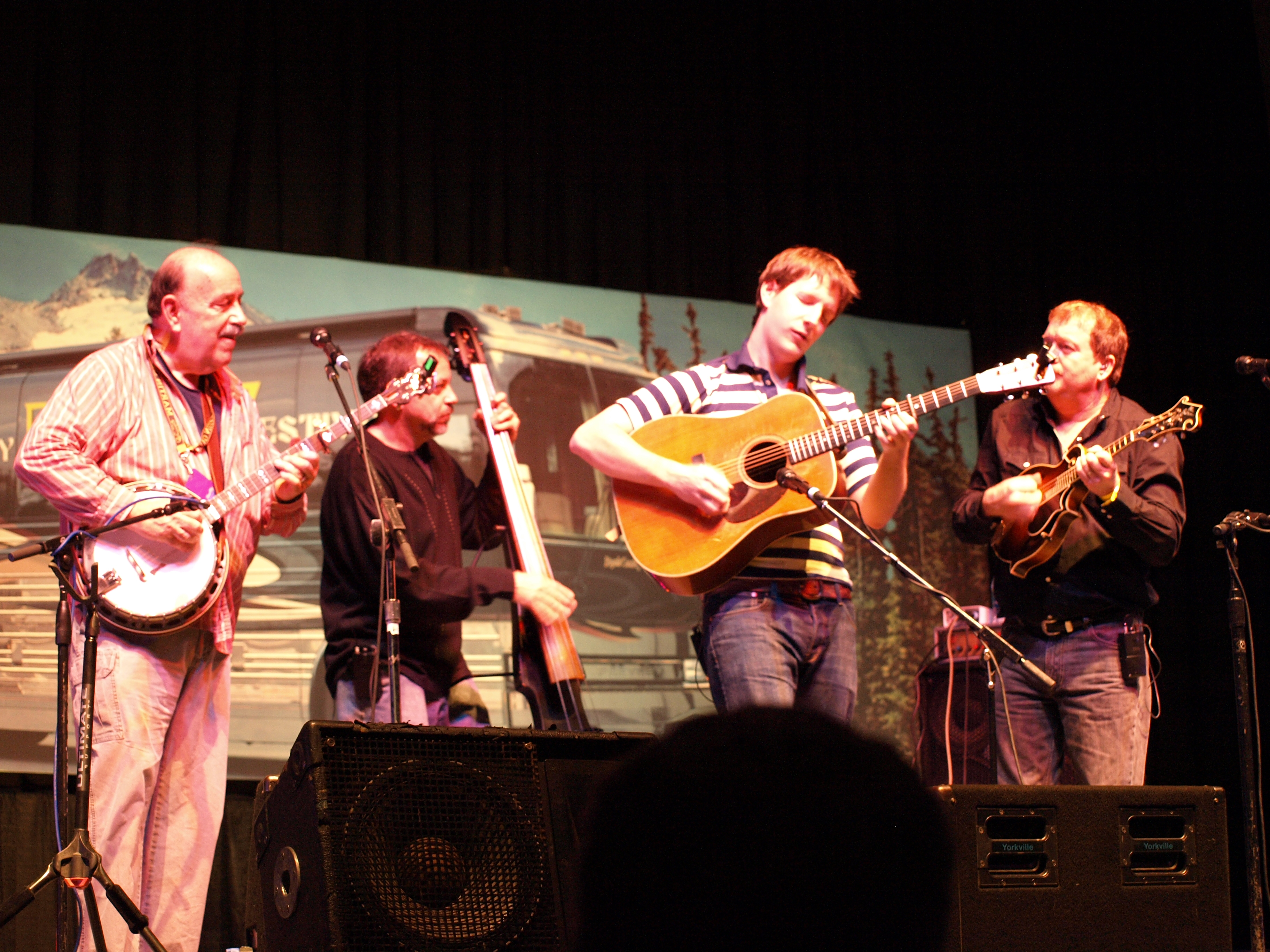 Rivercity Bluegrass 2008 253 Licensing